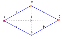 Rhombus, copied from